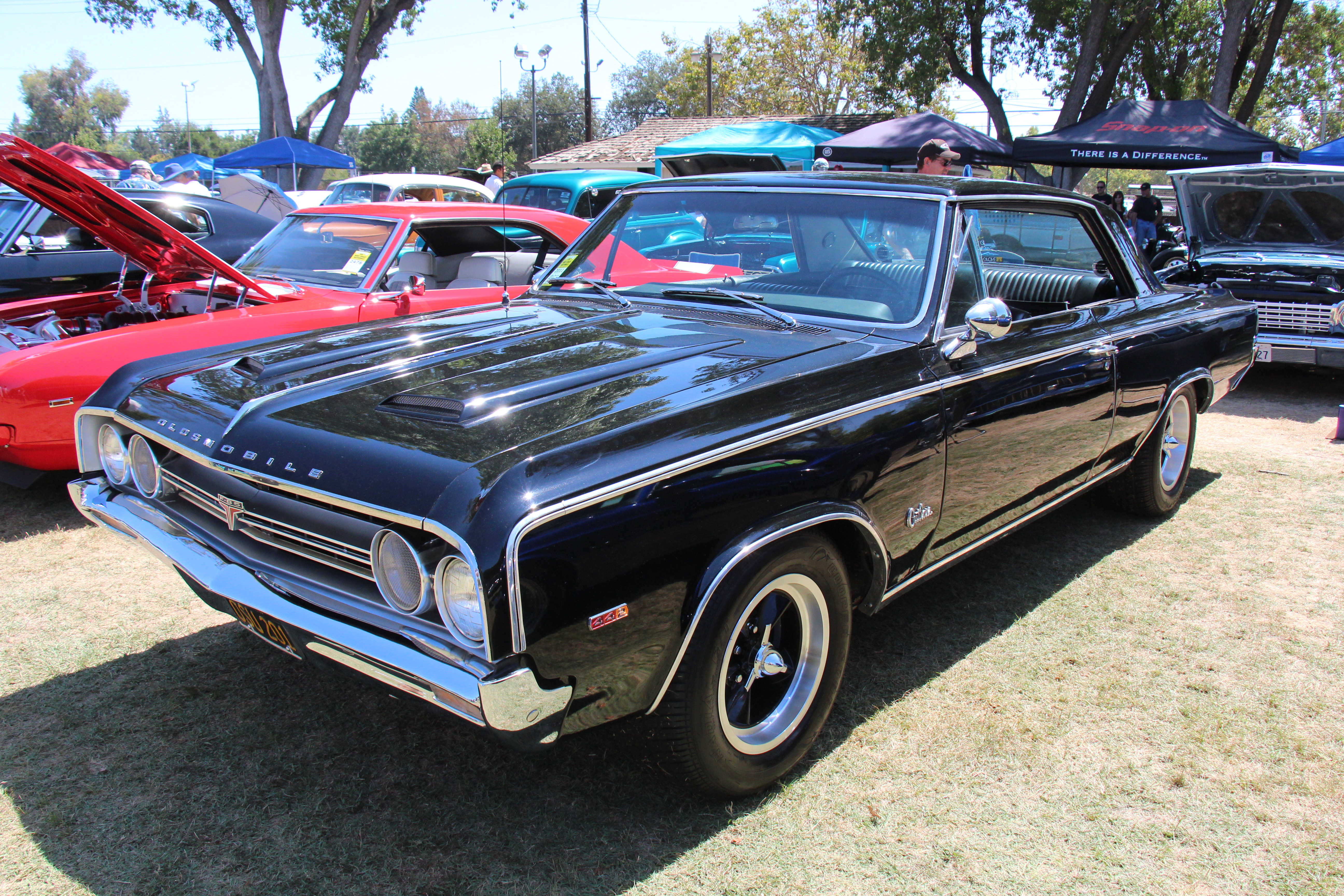 The Cutlass was introduced in 1961 as the top model in the F-85 line. In 1961, the F-85 came in 2 or 4 door sedan, wagon and Cutlass Sports Coupe In 1962, the Convertible became available and the Cutlass was now a true Hardtop, without door window frames The 63 model was a longer, squarer car 64 got a new chassis and a longer wheelbase, big news was the high performance 442 muscle car was introduced in 1964. The dumbbell grille was introduced in 1965 Engine; 310hp 330 cu in V8